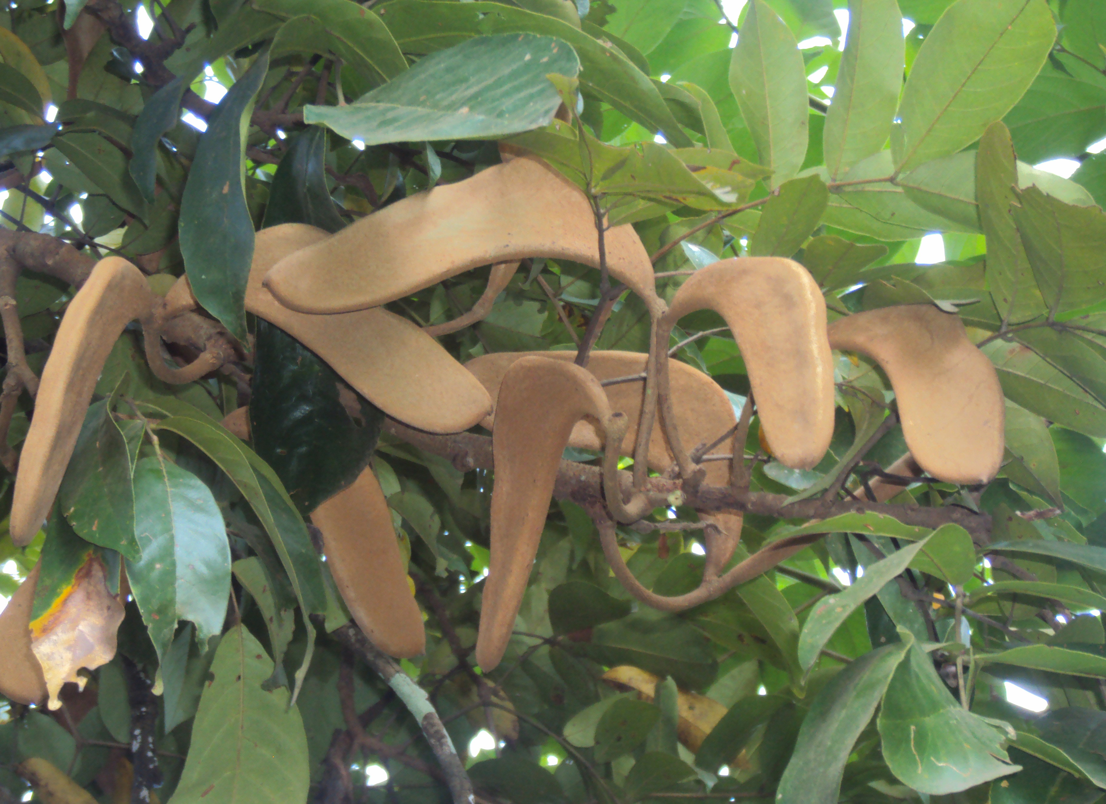 Xylia xylocarpa